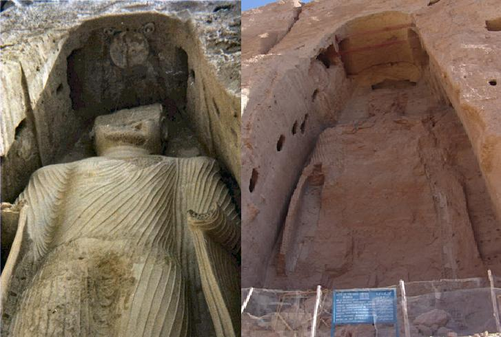 The smaller Buddha of Bamiyan before (left picture) and after destruction (right). To distinguish the two statue from each other: Look at the form of the statues niche. The niche of the taller Buddha is much more precise.